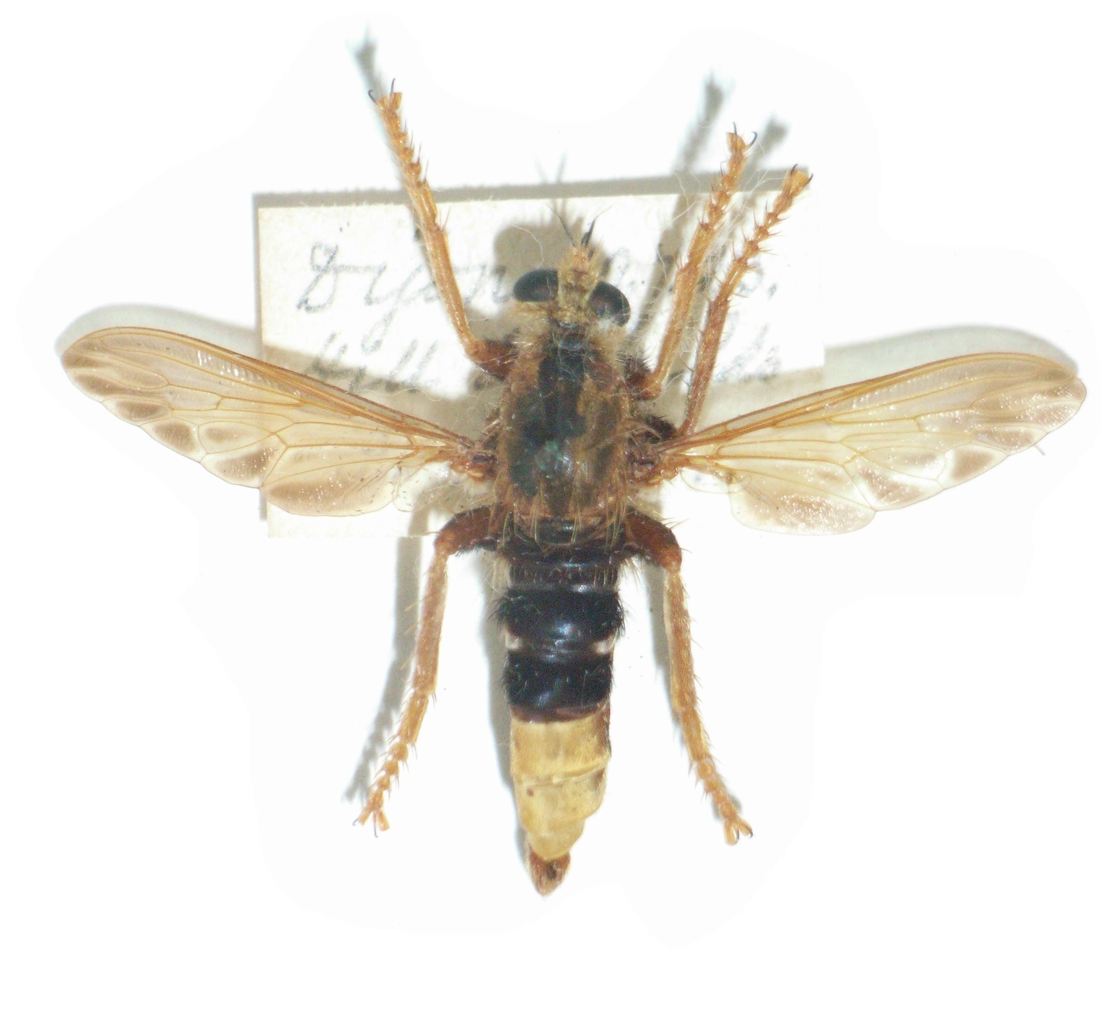 Asilus crabroniformis